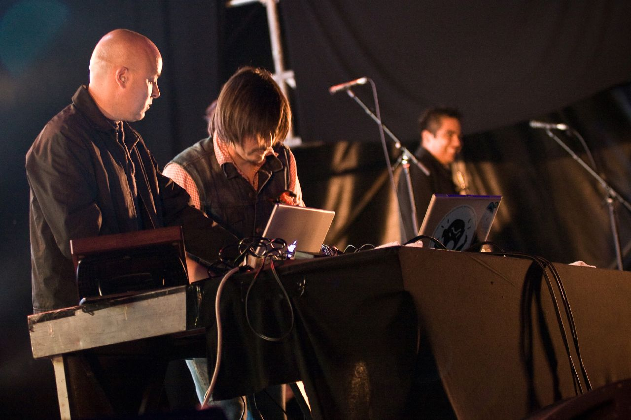 Photo of Nortec Collective by Vincent Courtois